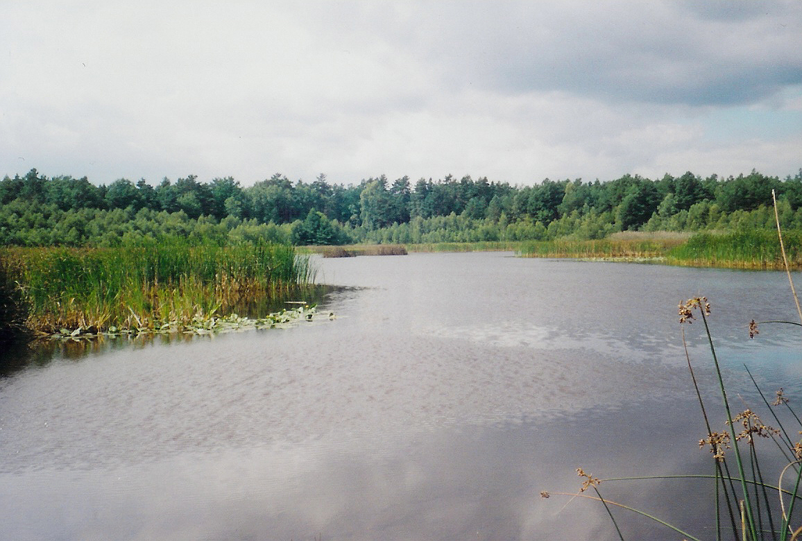 The Gogol lake (Poland)